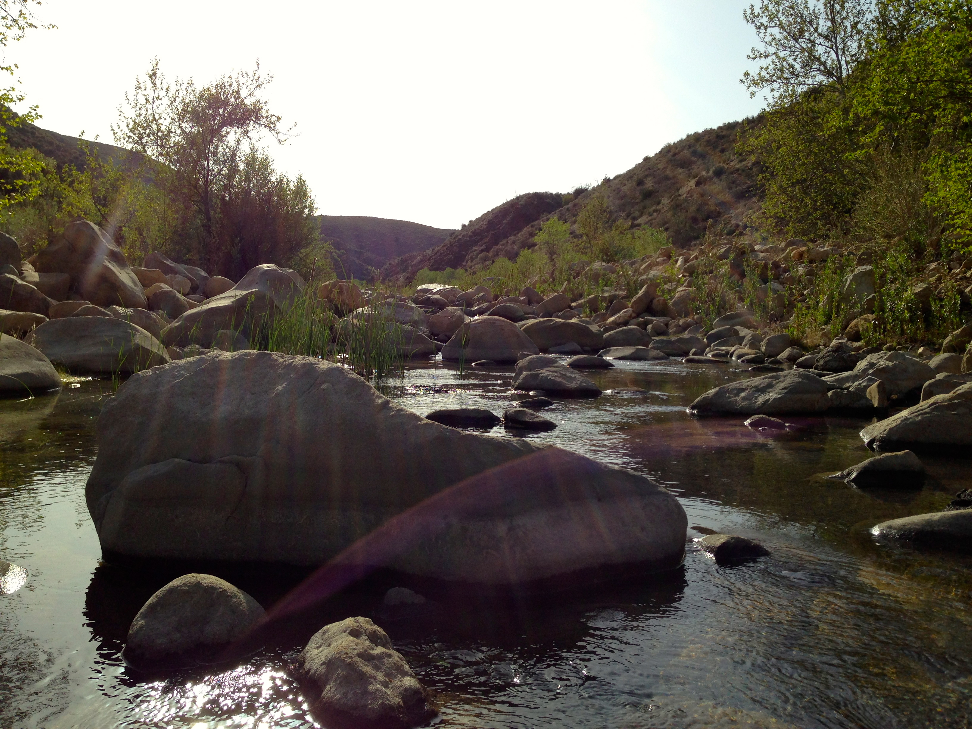 Sespe Creek Trail at sunset.